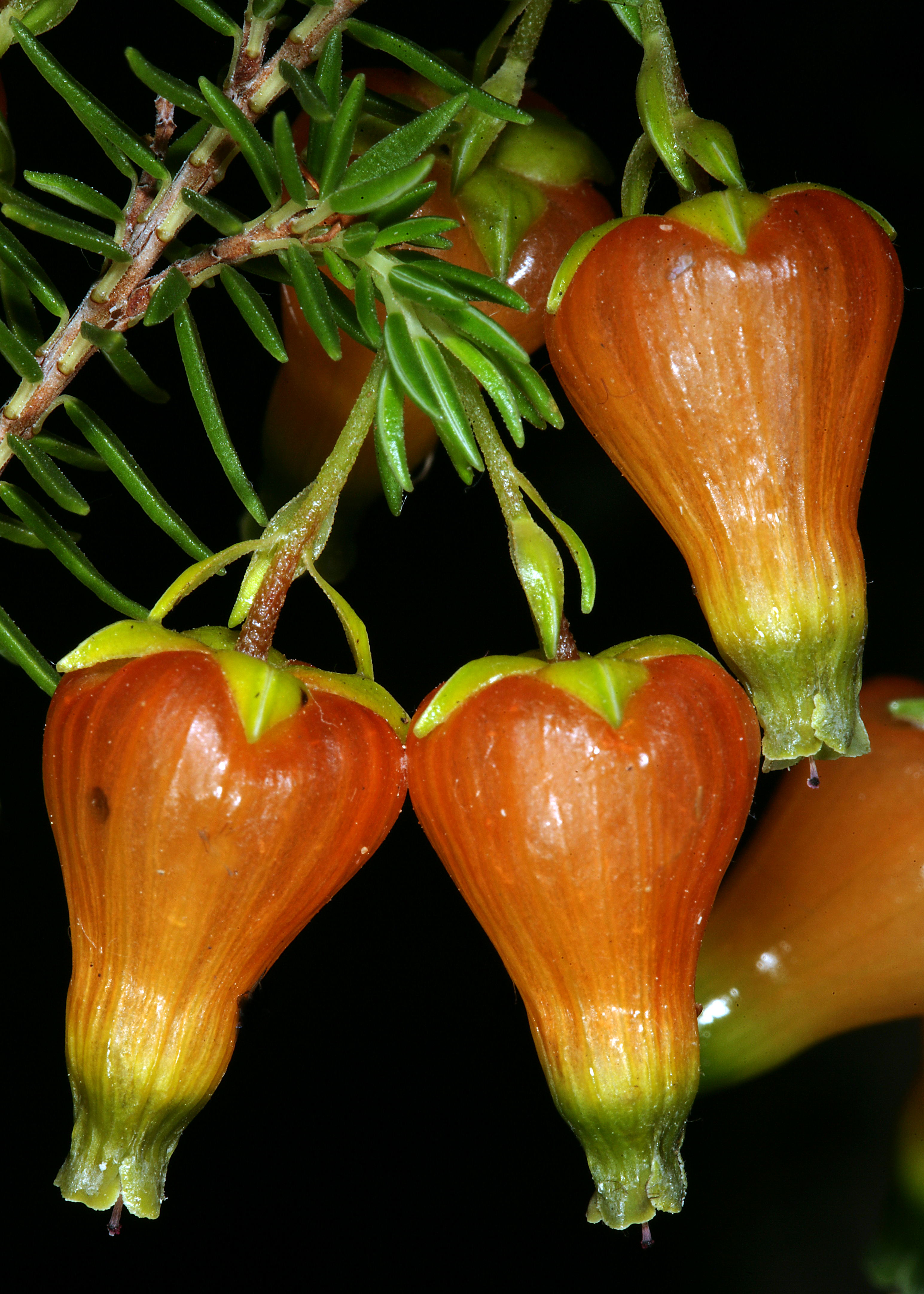 Erica blenna var. grandiflora, flowers; Kirstenbosch National Botanical Garden, Cape Town, Western Cape, South Africa